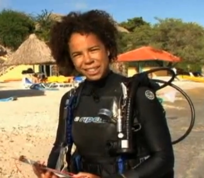 What’s it really like to be an engineer or a scientist? What does a marine biologist do all day? You’re about to find out! Meet the next generation of engineers and scientists in these profiles of young professionals, who may just inspire you to join them. Ayana Johnson fell in love with the ocean the moment she laid eyes on a coral reef at age five. Find out what it’s like to be a marine biologist. Provided by the National Science Foundation